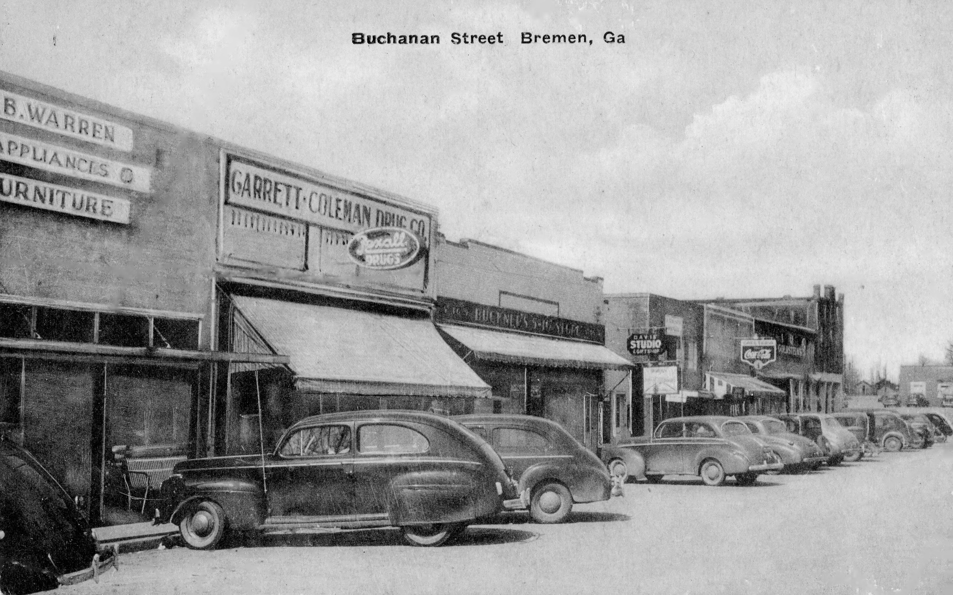 Buchanan Street in Bremen Georgia circa 1940's